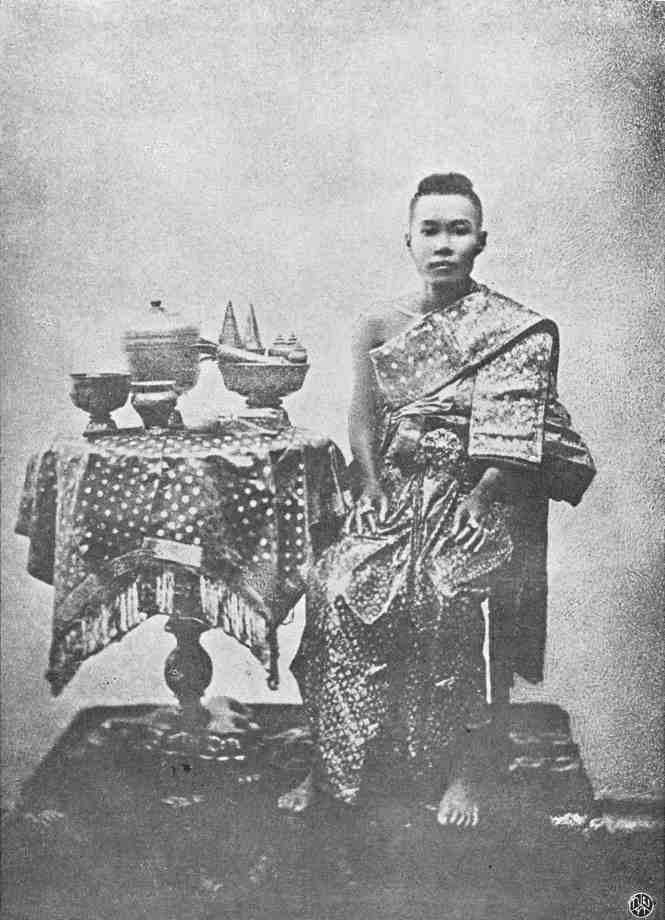 Queen Debsirindra of Siam. Tenure 1 April 1851 – 9 September 1861